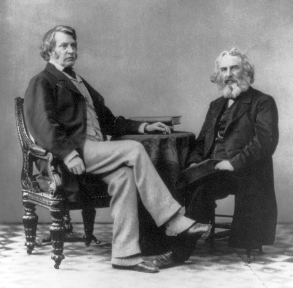 Portrait of Senator Charles Sumner and Henry Wadsworth Longfellow. Titled by the photographer "The Politics and Poetry of New England". (See Longfellow Rediscovered by Charles C. Calhoun. Beacon Press, 2004: 229. ISBN 0-8070-7026-2)